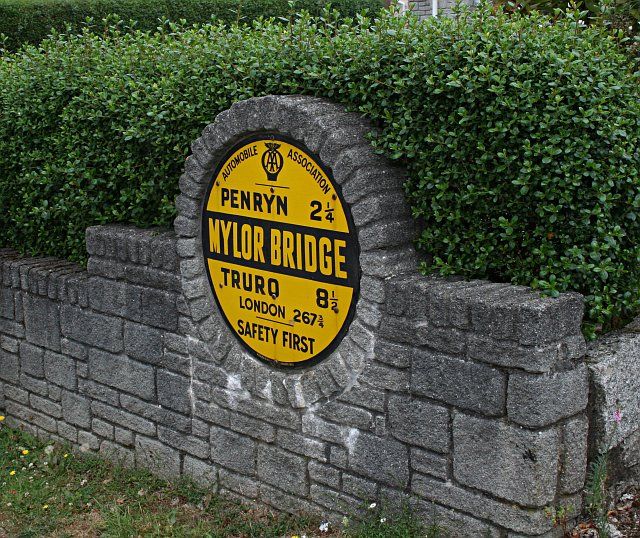 AA Village Sign. This old Automobile Association supplied village sign is built into a garden wall.